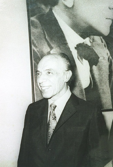 Emilio Adolfo Westphalen